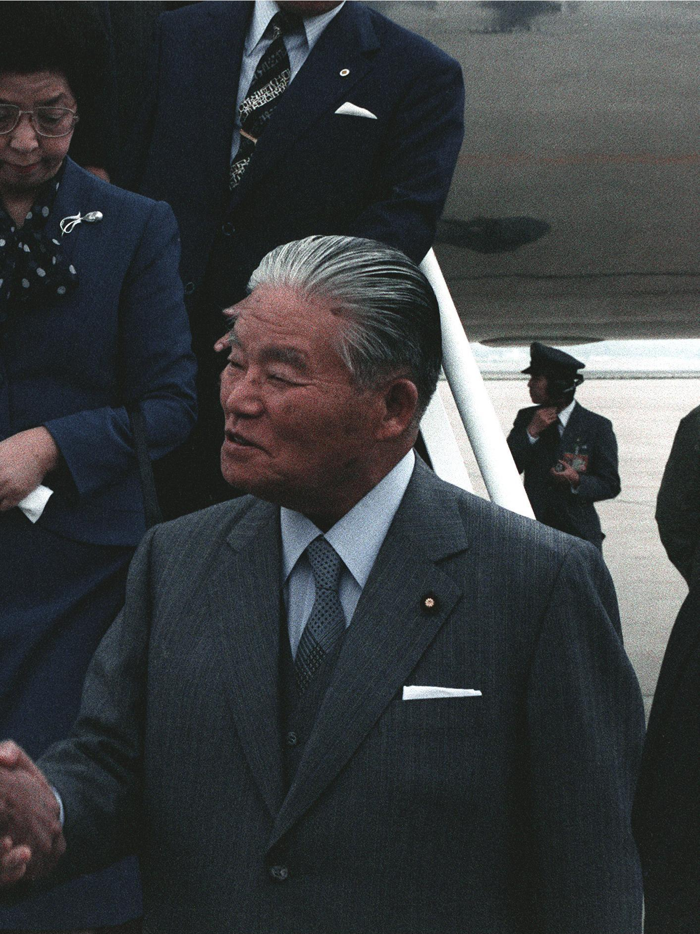 Prime Minister Masayoshi Ohira of Japan is welcomed upon his arrival in the United States for a visit. (Released to Public)